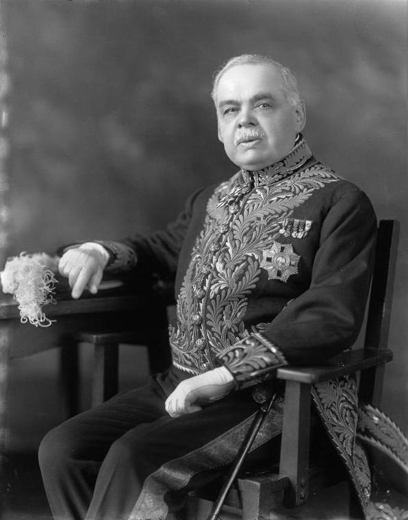 Photograph Sir Jean-Lomer Gouin, Lieutenant-Governor of Québec, Montreal, QC, 1929, Wm. Notman & Son, Silver salts on paper mounted on paper - Gelatin silver process, 8 x 5 cm